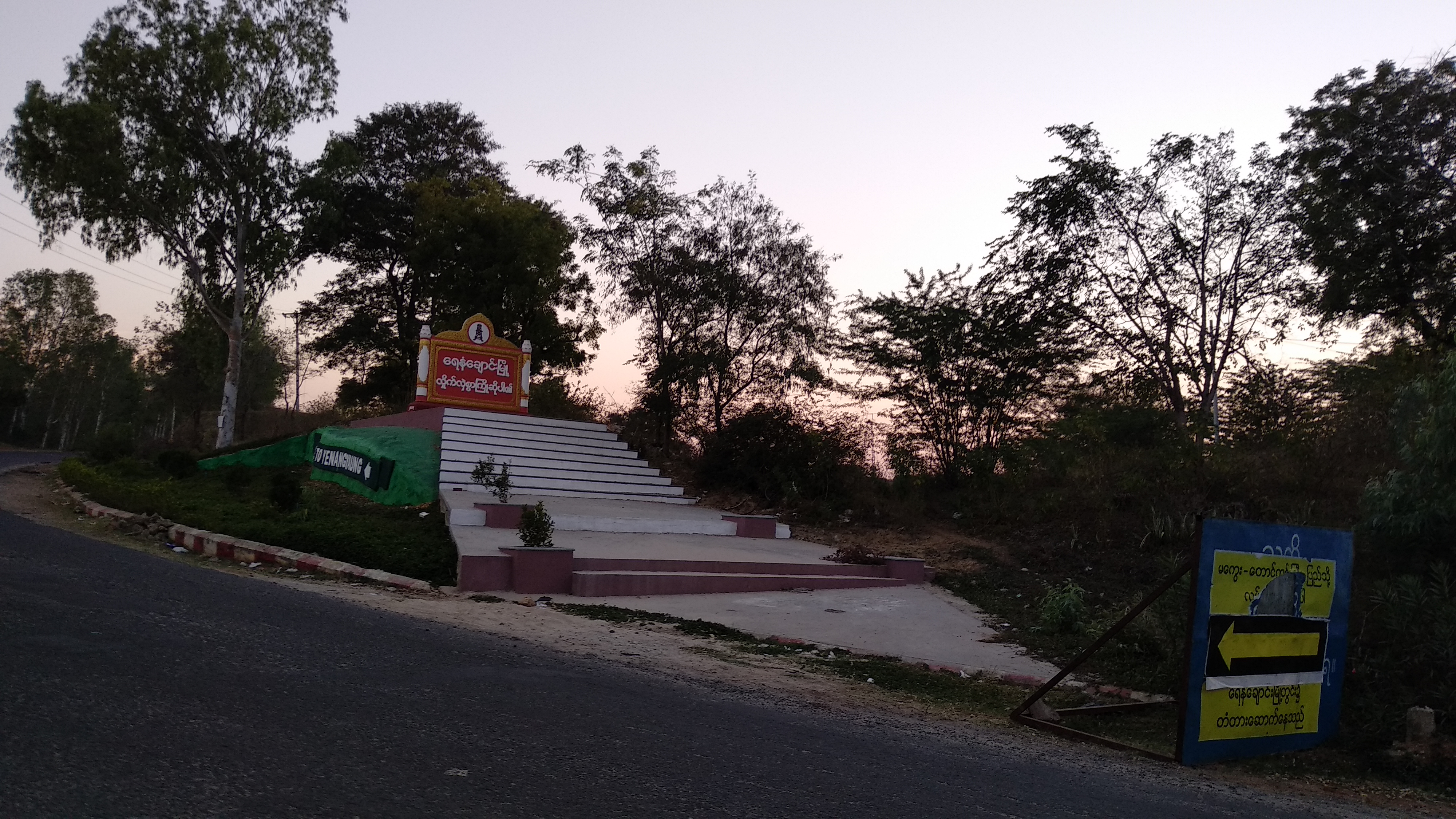 Welcome signboard of Yenangyaung town, Magway Region, Myanmar မြန်မာဘာသာ: မကွေးတိုင်းဒေသကြီး၊ ရေနံချောင်းမြို့ဝင်ဆိုင်းဘုတ်